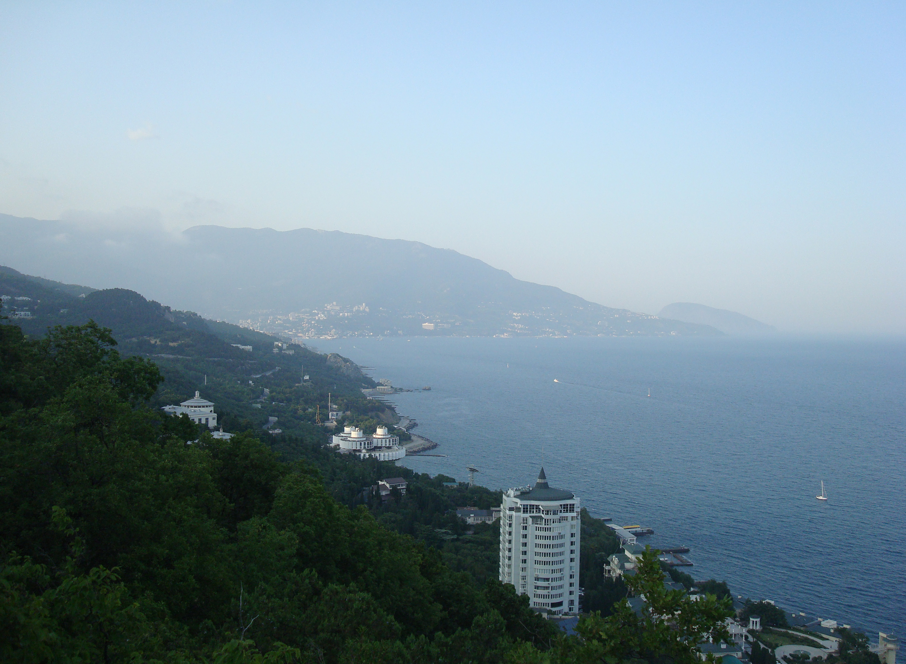 View on Kurpaty